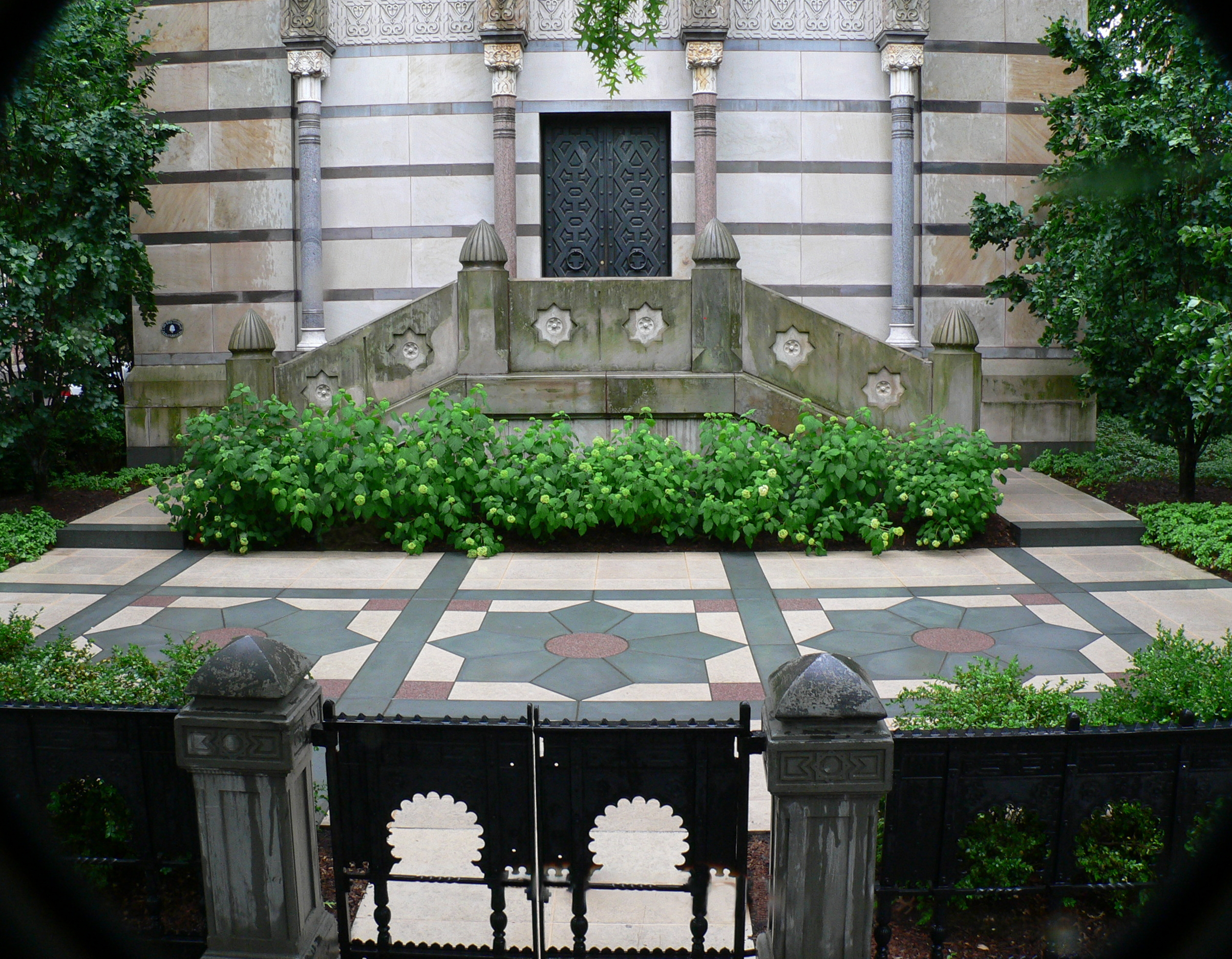 I photographed the historic Scroll and Key facade with its forecourt in June 2007.